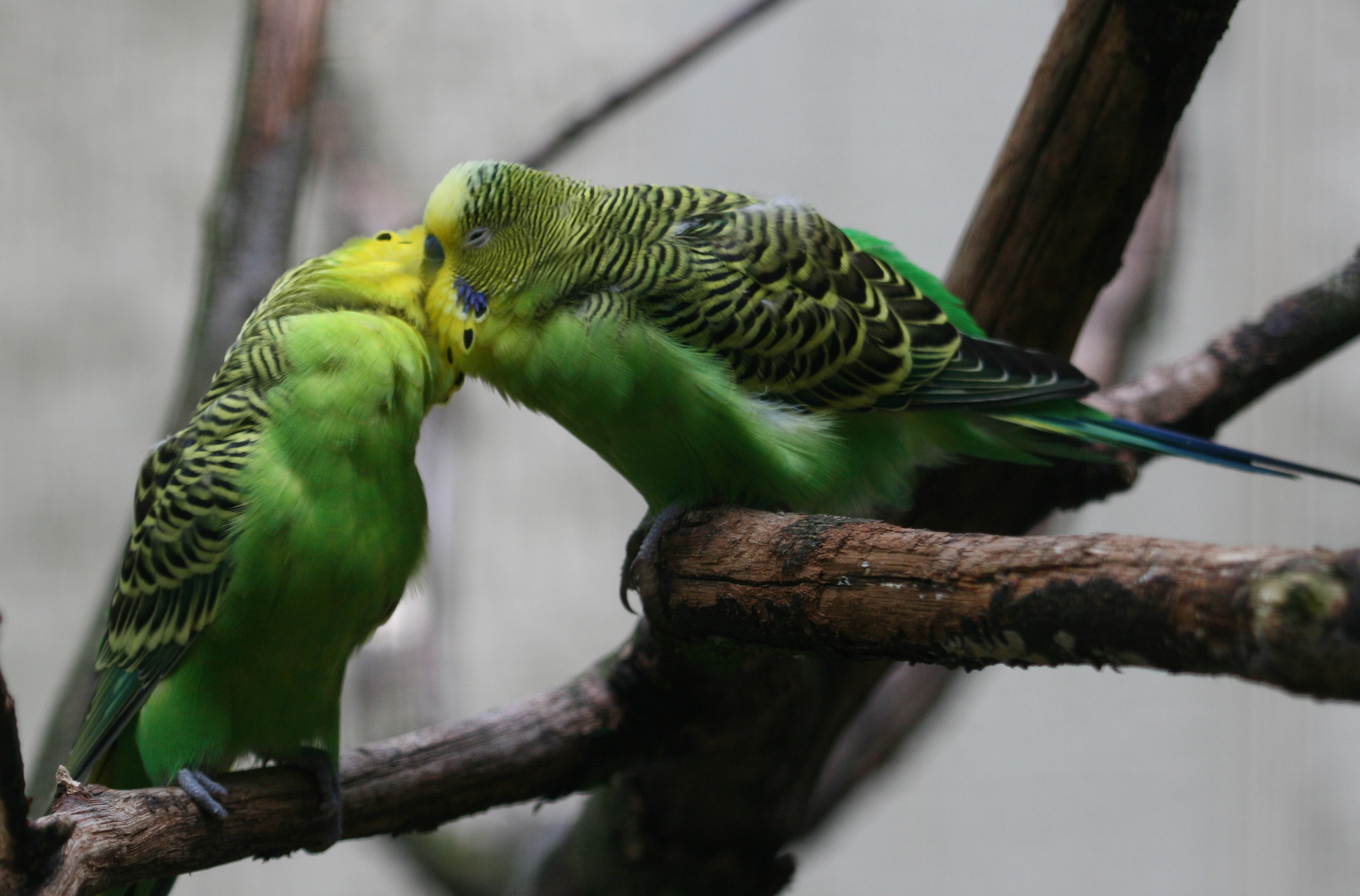 A pair of wild-type Budgerigar at Cologne Zoo, Germany. Not domesticated budgerigars!!!